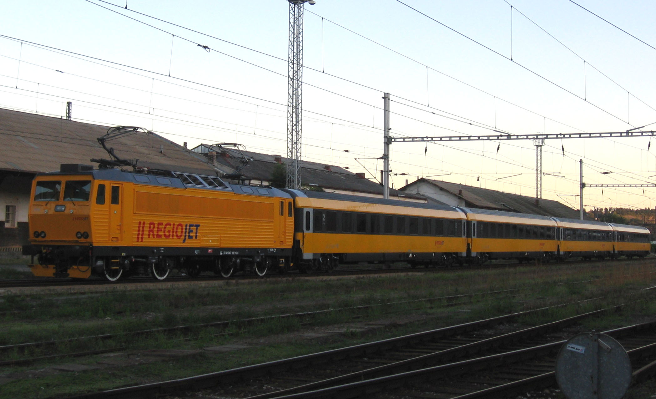 RegioJet train composed from 162.115 (ex FNM) and 4 coaches ABmpz (ex ÖBB) at Praha Smíchov